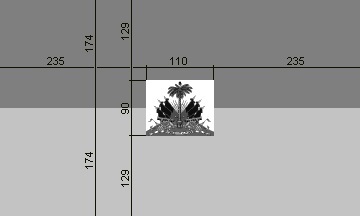 Flag of Haiti (construction sheet).